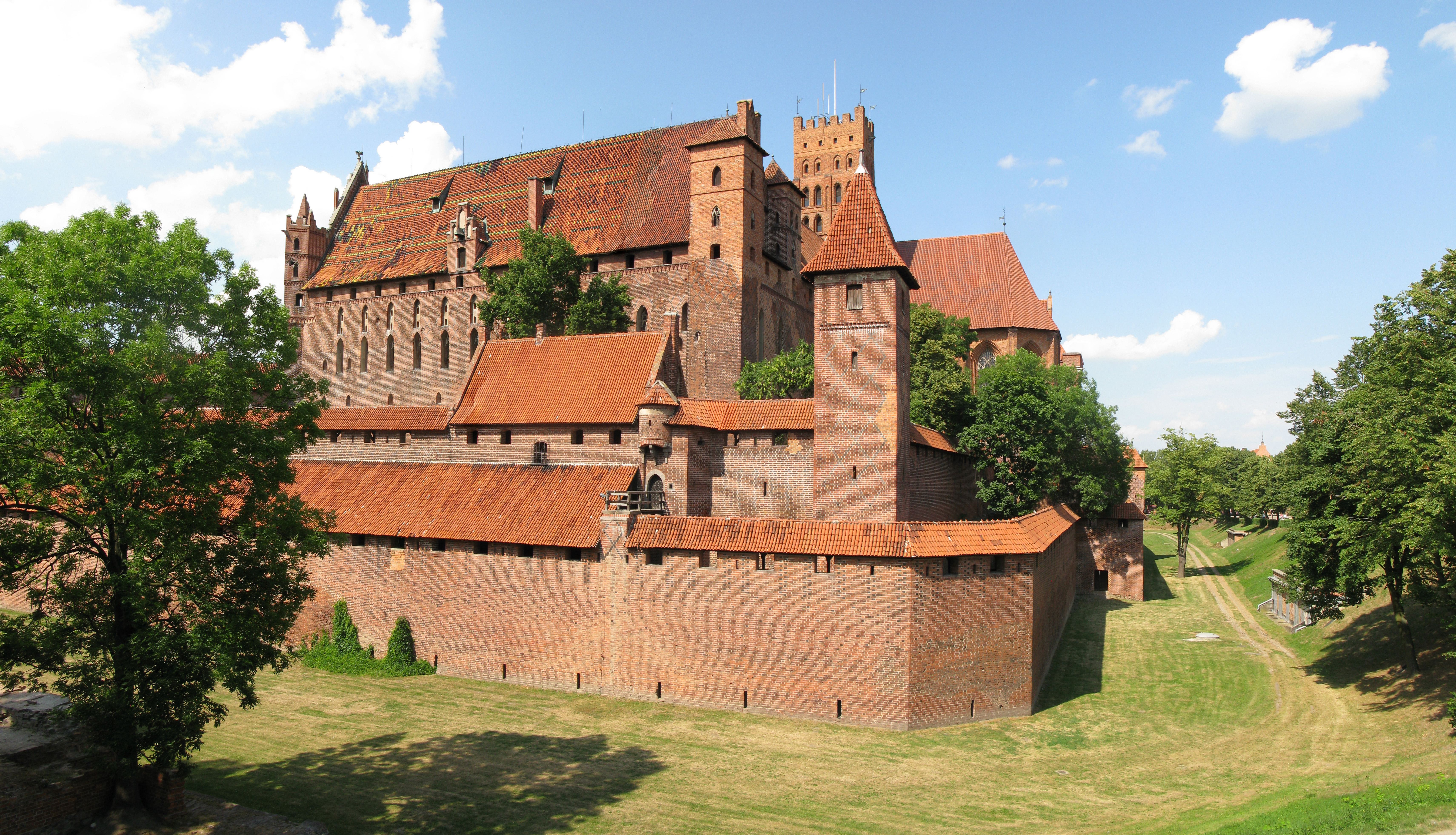 Own photograph taken at July 13 Malbork Castle - Malbork, Poland - Exterior